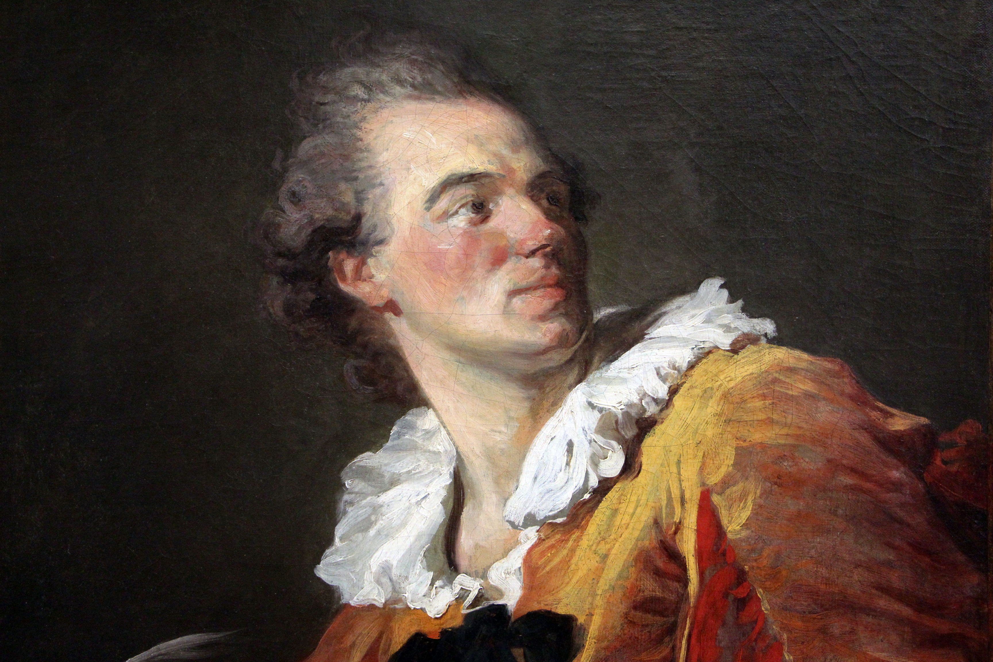 Paintings by Fragonard in the Louvre